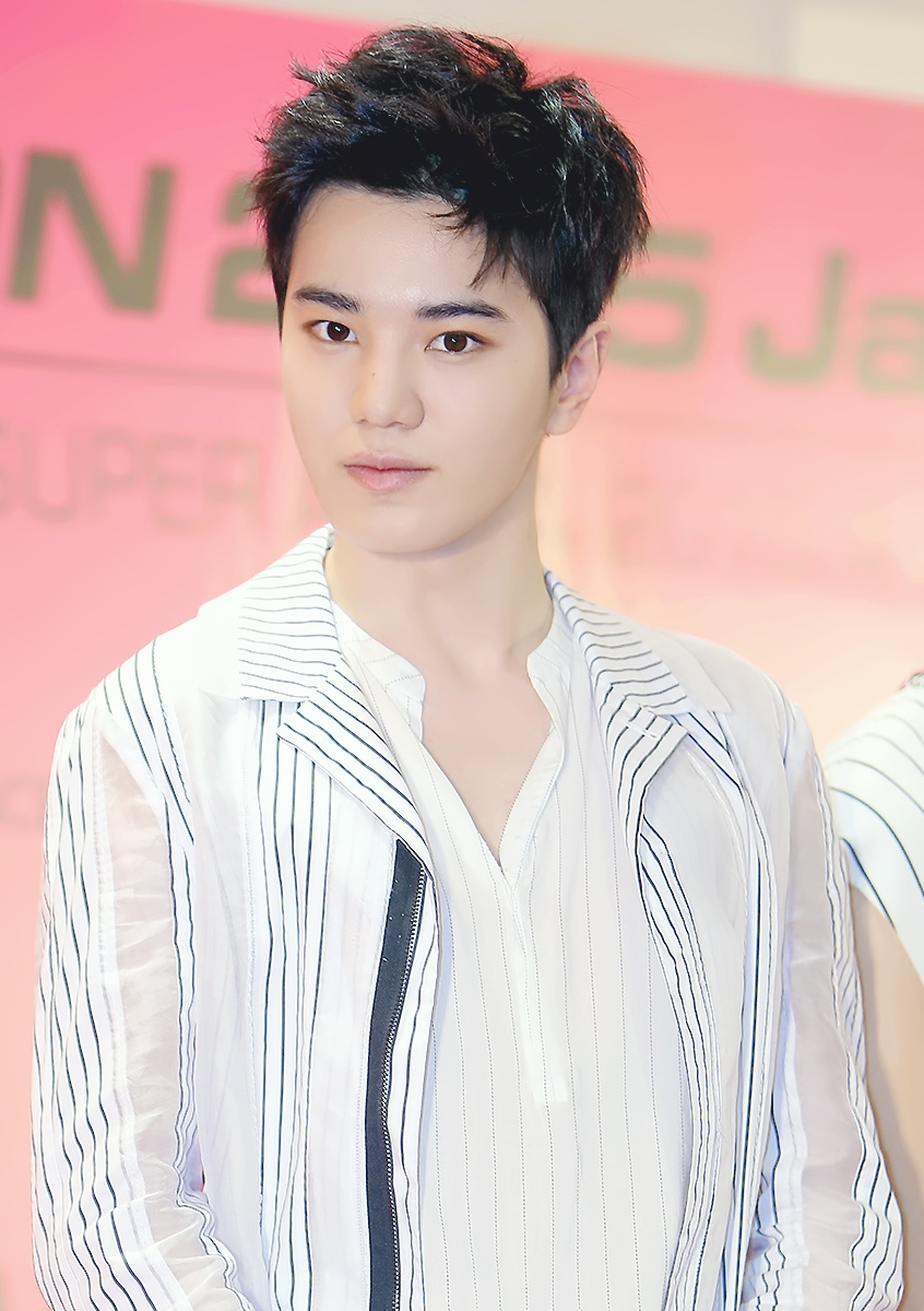 Lee Sung-jong at the music festival KCON Press Conference in Japan on April 22, 2015.